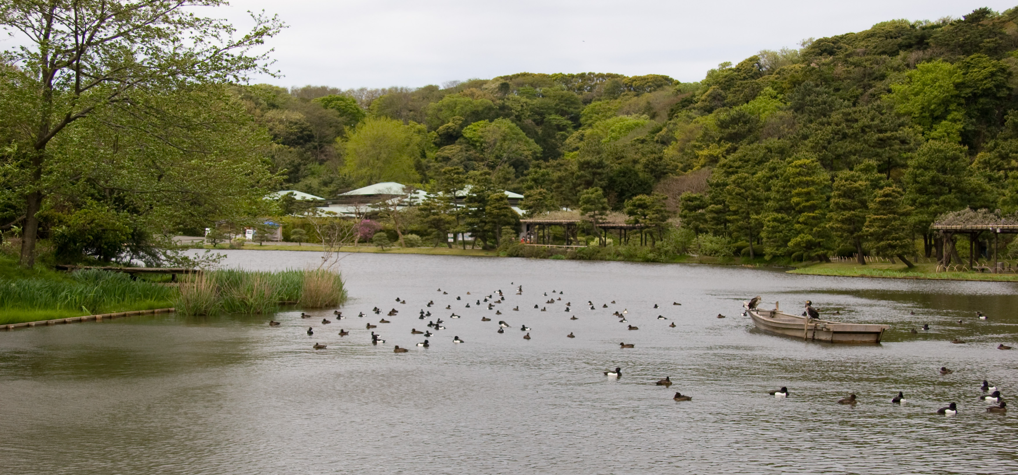 Senkeien